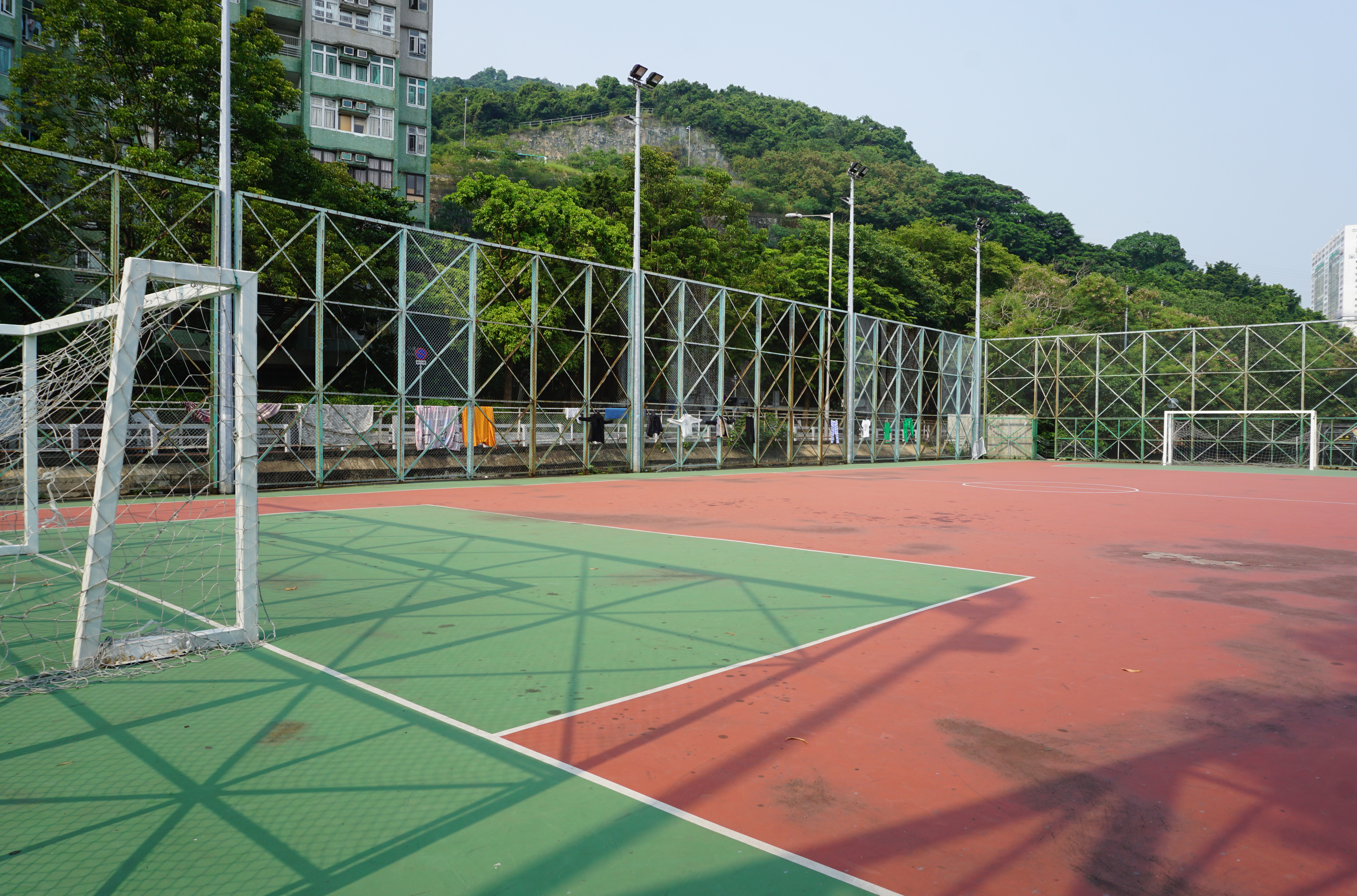 Wah Kwai Estate in Pok Fu Lam, Hong Kong.